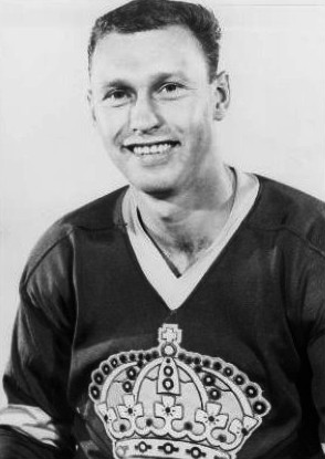 Photo of Gord Labossiere as a member of the Los Angeles Kings.